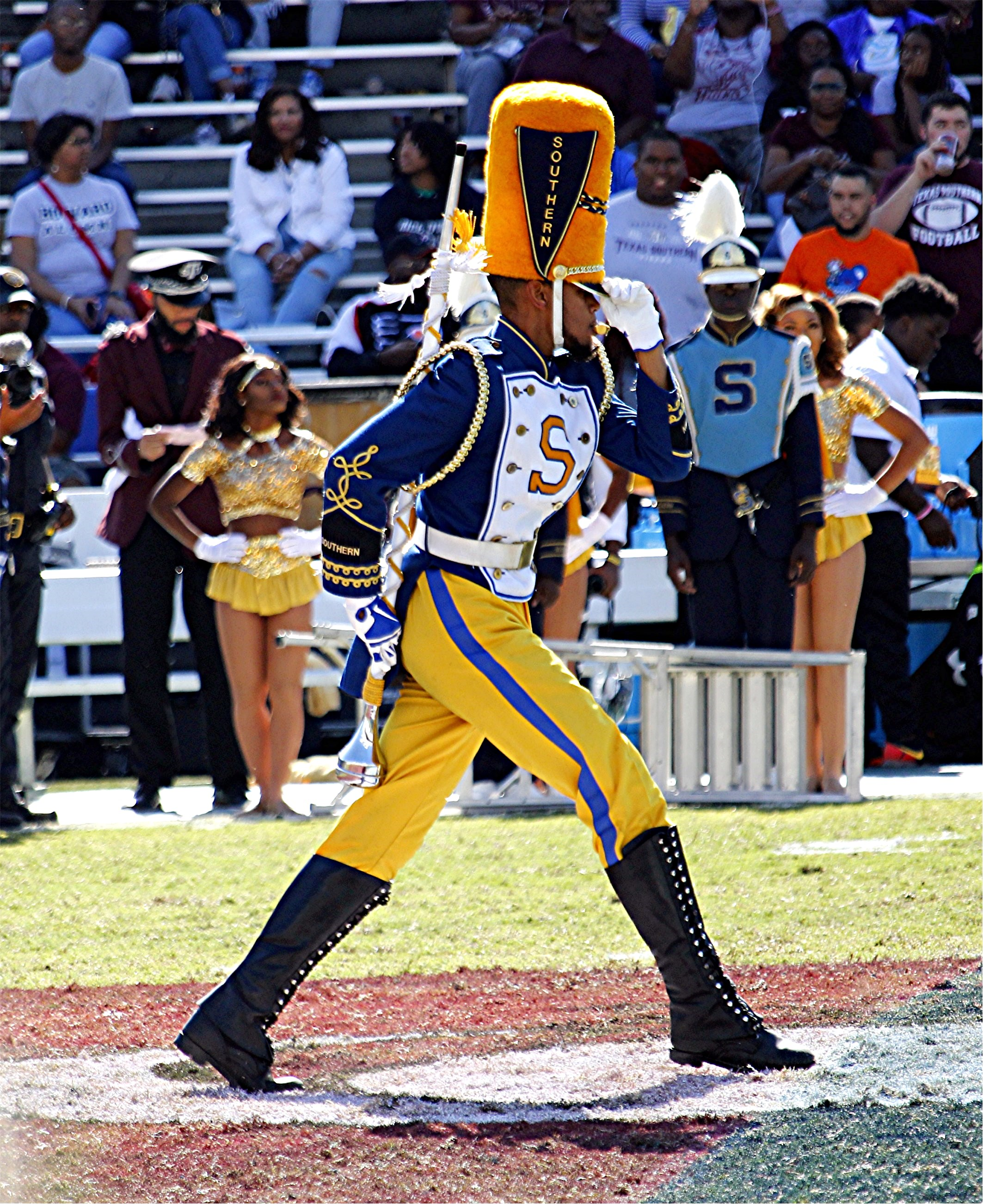 State Fair Showdown 2019 Southern University (SU) Human Jukebox feat. Fabulous Dancing Dolls vs. Texas Southern University (TXSU) Cotton Bowl Stadium Dallas, TX 10/19/19 HBCU Band Warning: Harsh Lighting**